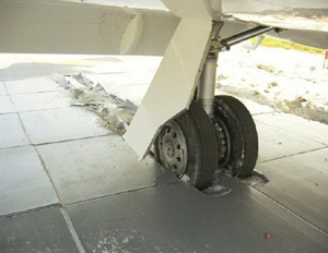 A docket photo of National Transportation Safety Board of the bed of Engineered Materials Arrestor System (EMAS)